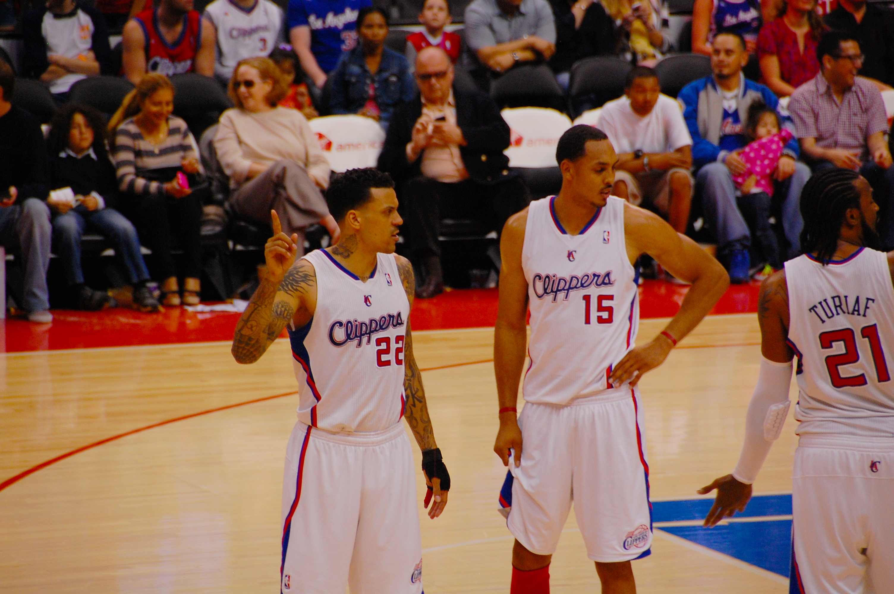 Los Angeles Clippers' Matt Barnes, Ryan Hollins and Ronny Turiaf (from left to right)